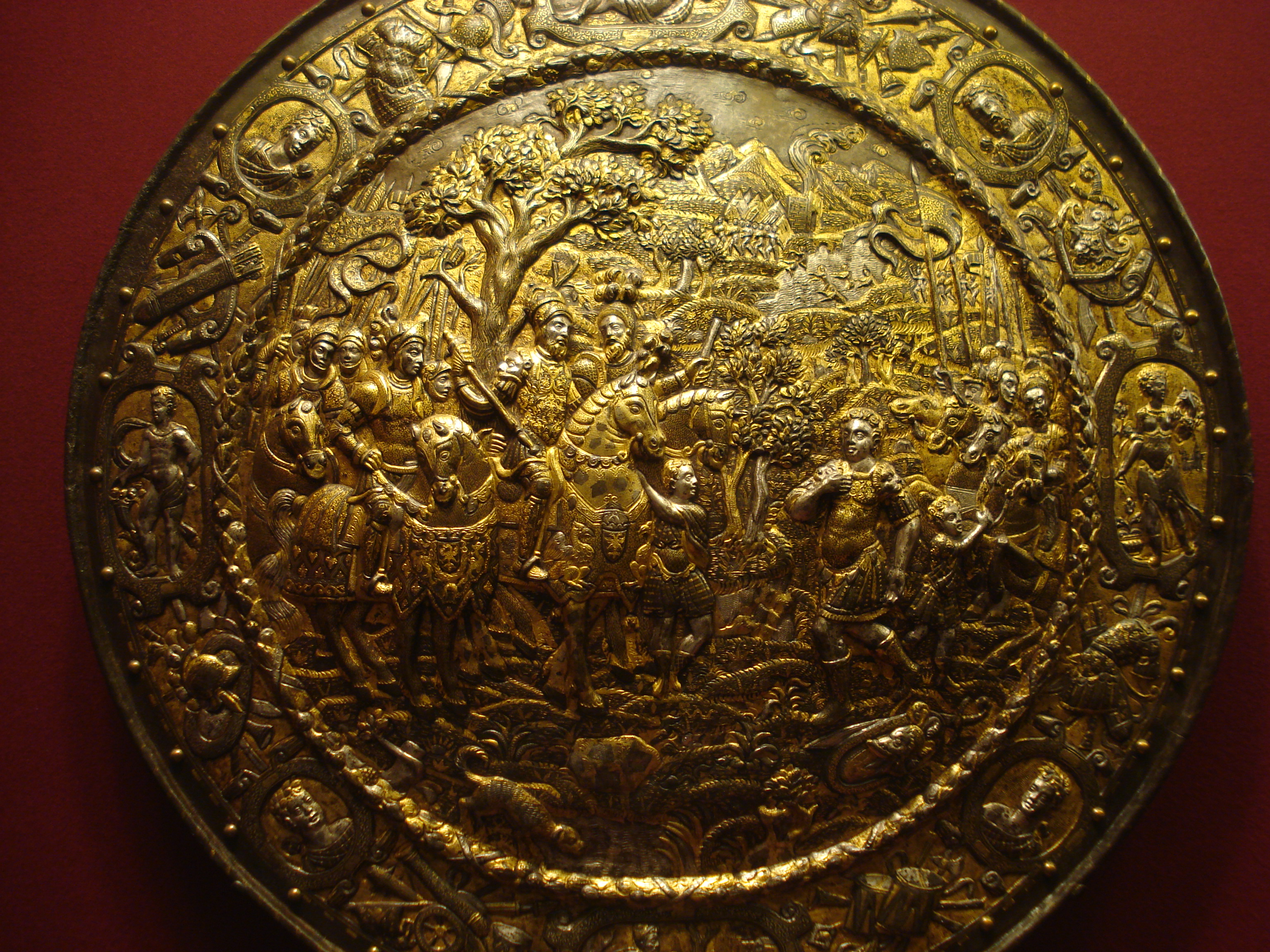 Milan, Italy, 1560-70. Shield depicts the surrender of Prince-Elector Johann Friedrich of Saxony (1503-54) to Emperor Charles V (1519-56) after the Battle of Mühlberg on 1547-04-24. Scene is derived from an engraving by Maerten van Heemskerck (1498-1574), part of a series depicting the triumphs of Charles V published in Antwerp in 1556. Displayed in the Metropolitan Museum of Art.